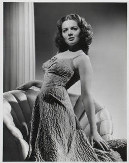 Vintage publicity photo featuring actress Arleen Whelan.